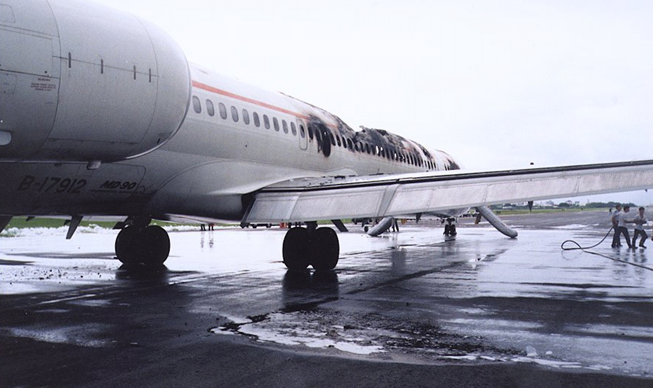 Uni Air Flight 873 landed at Hualien Airport and was rolling on Runway 21, when an explosion was heard in the front section of the passenger cabin, followed by smoke and then fire.